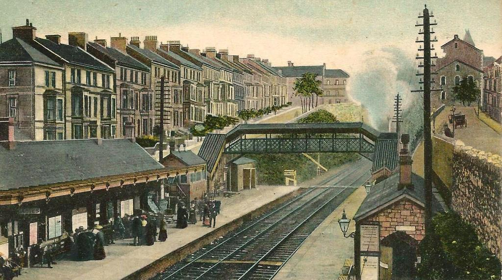 Mutley station in Plymouth in the early years of the twentieth century.